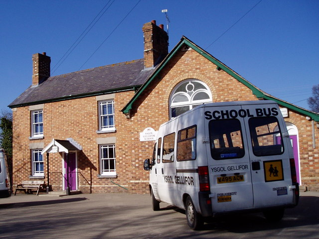 Village School, Gellifor. Opened in 1868, this village school is in what was a previously very Welsh area, but now 99% of children are from English-speaking homes.